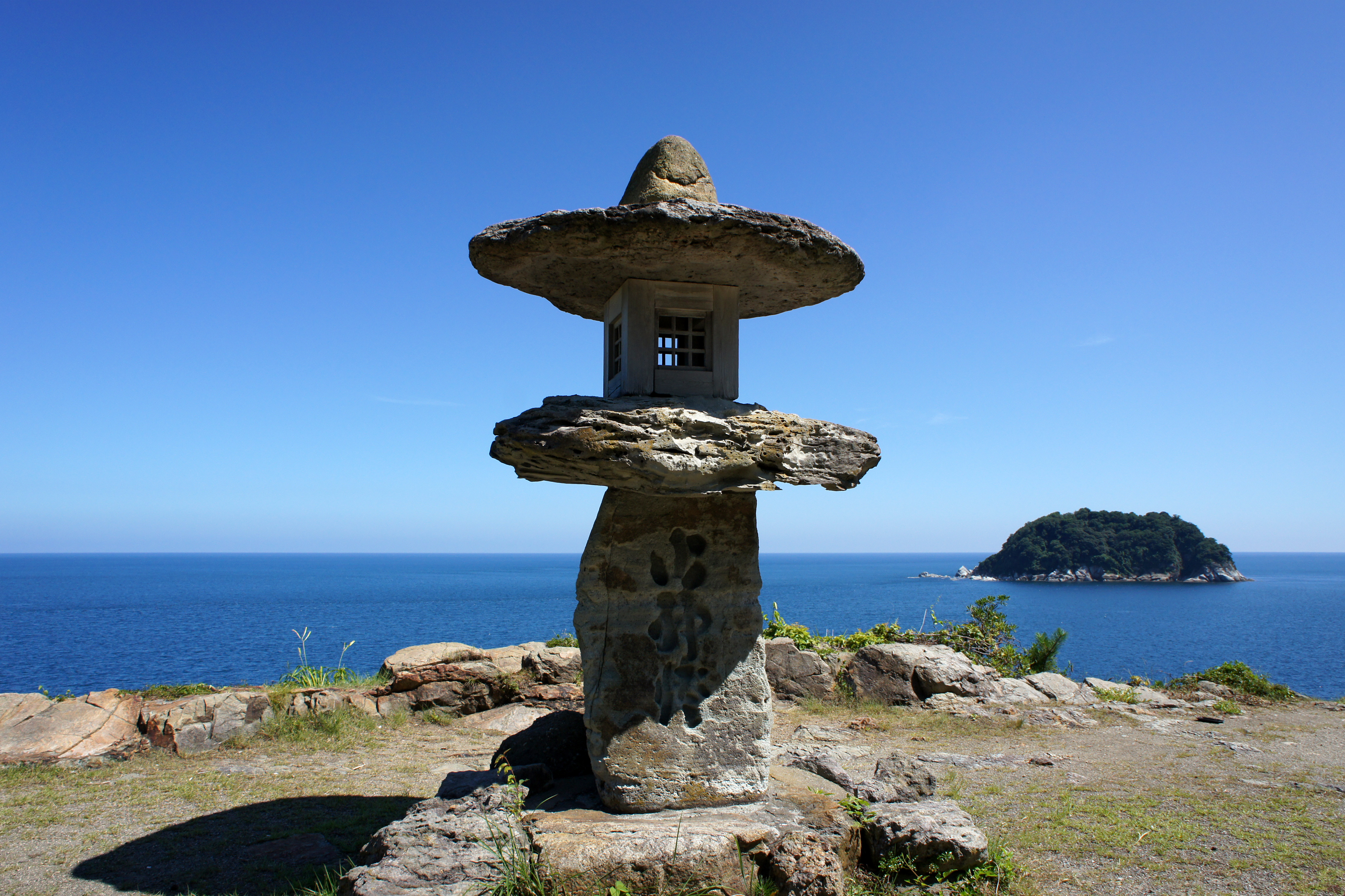 Kasumi Coast view from Okami park in Kami, Hyogo prefecture, Japan It belongs to a Sanin Kaigan National Park.